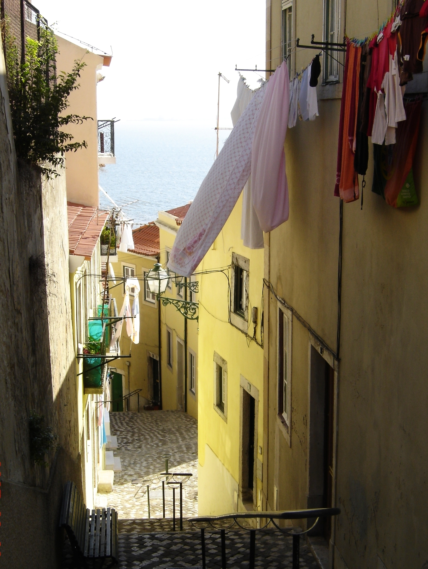 Alfama, Lisboa